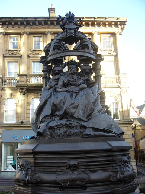 Statue of Queen Victoria Outside St. Nicholas Cathedral